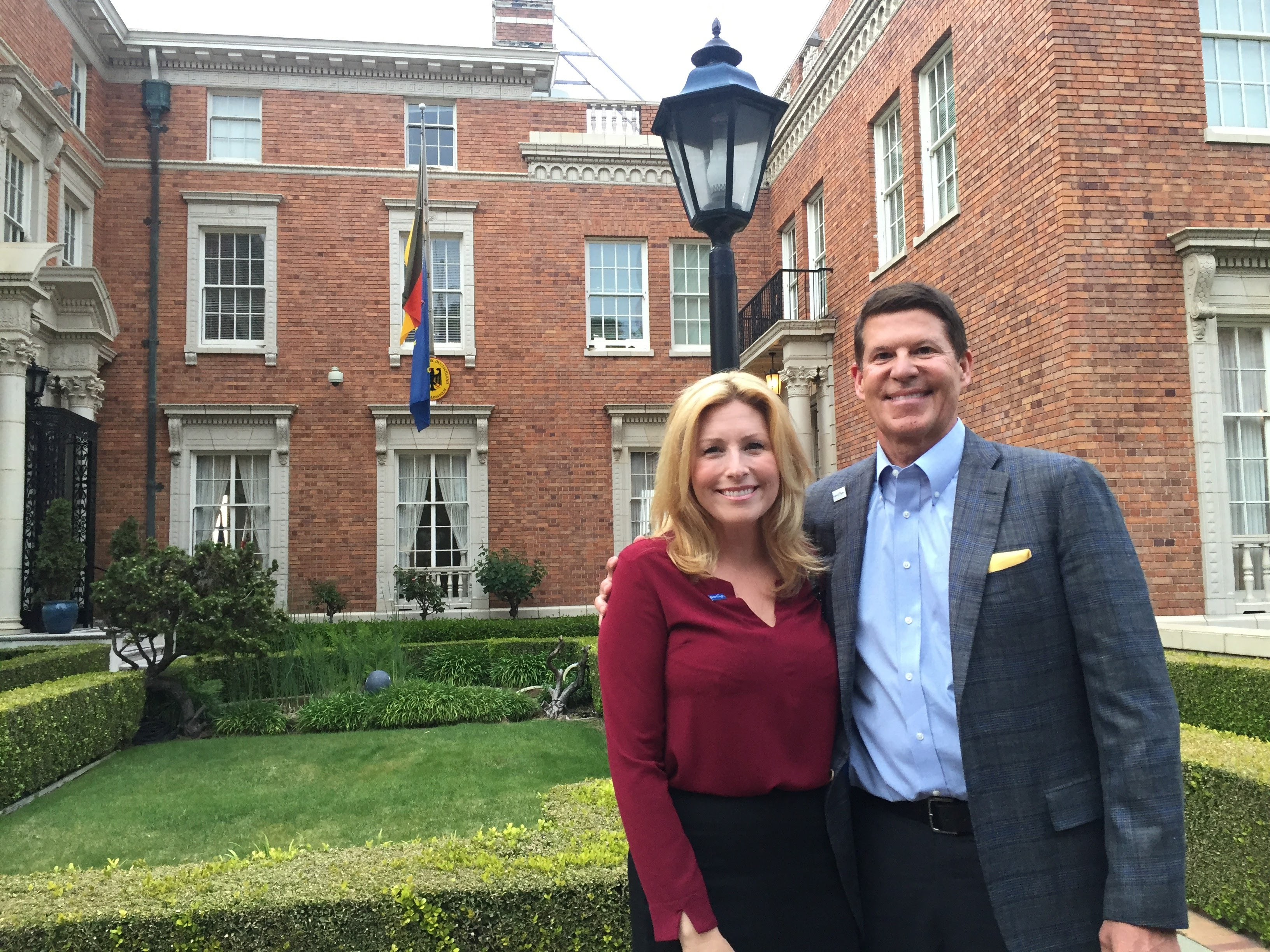 Keith and Metta Krach outside the San Francisco German Consulate in 2017